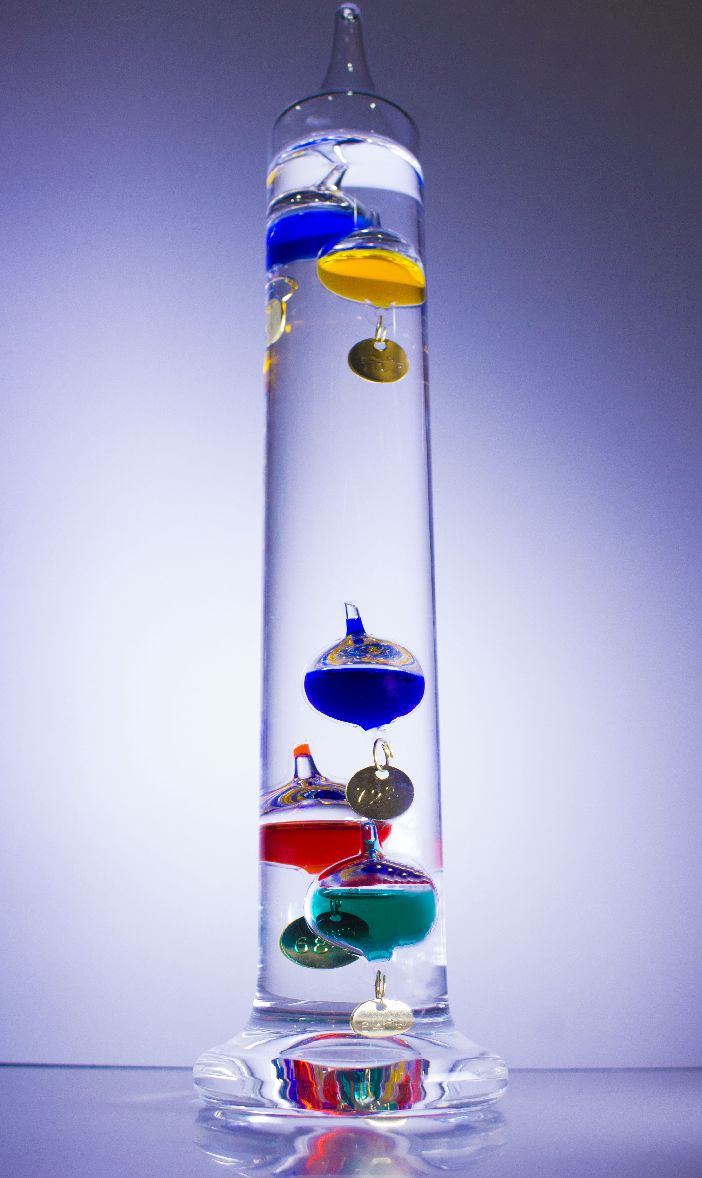 This full view image is of an ambient weather Galileo thermometer on a clean background, showing its colorful reflection. A Galileo thermometer is a sealed glass tube filled with paraffin oil and floating colored-liquid bubbles made of glass.